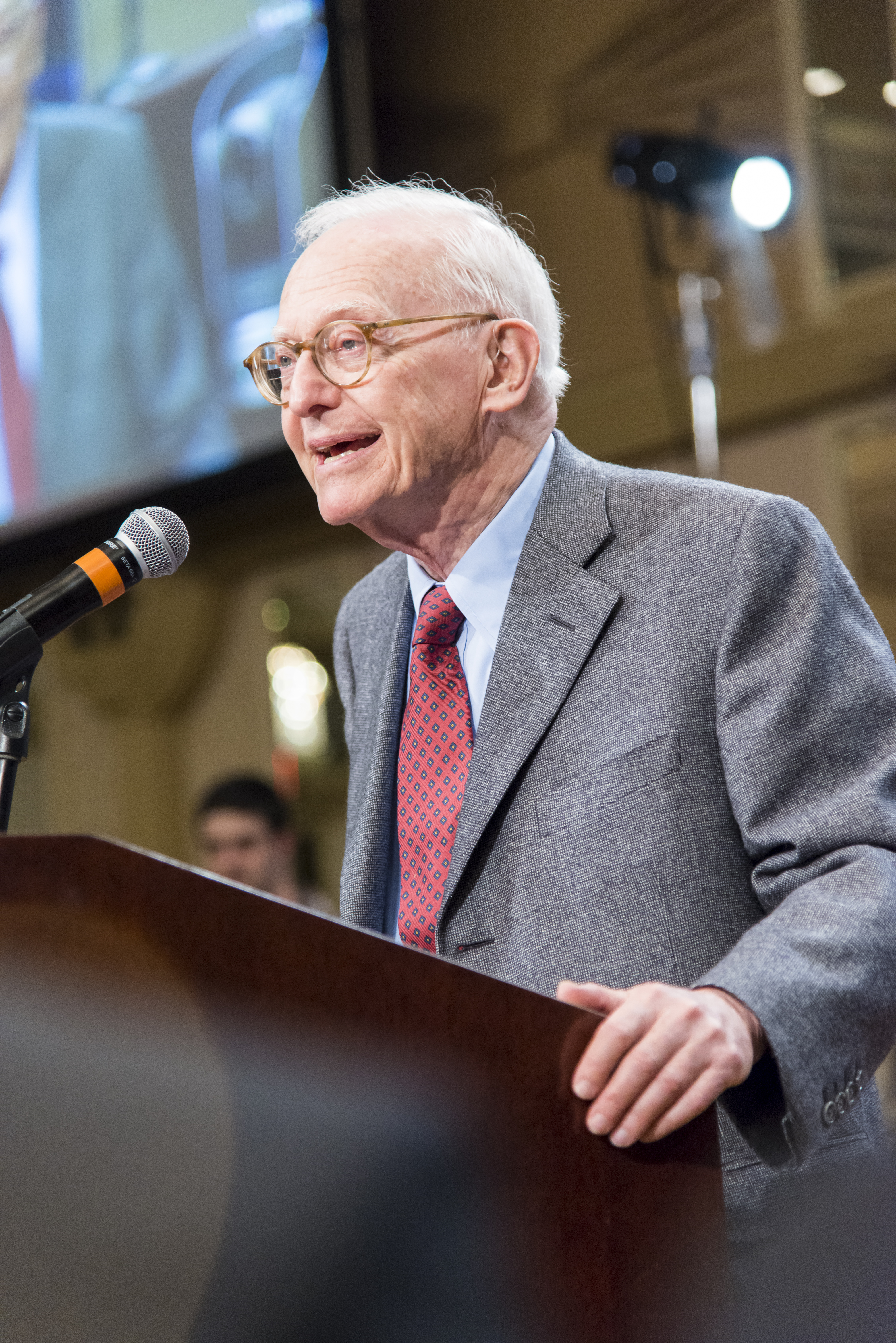 stephen schwebel international court of justice jessup moot court